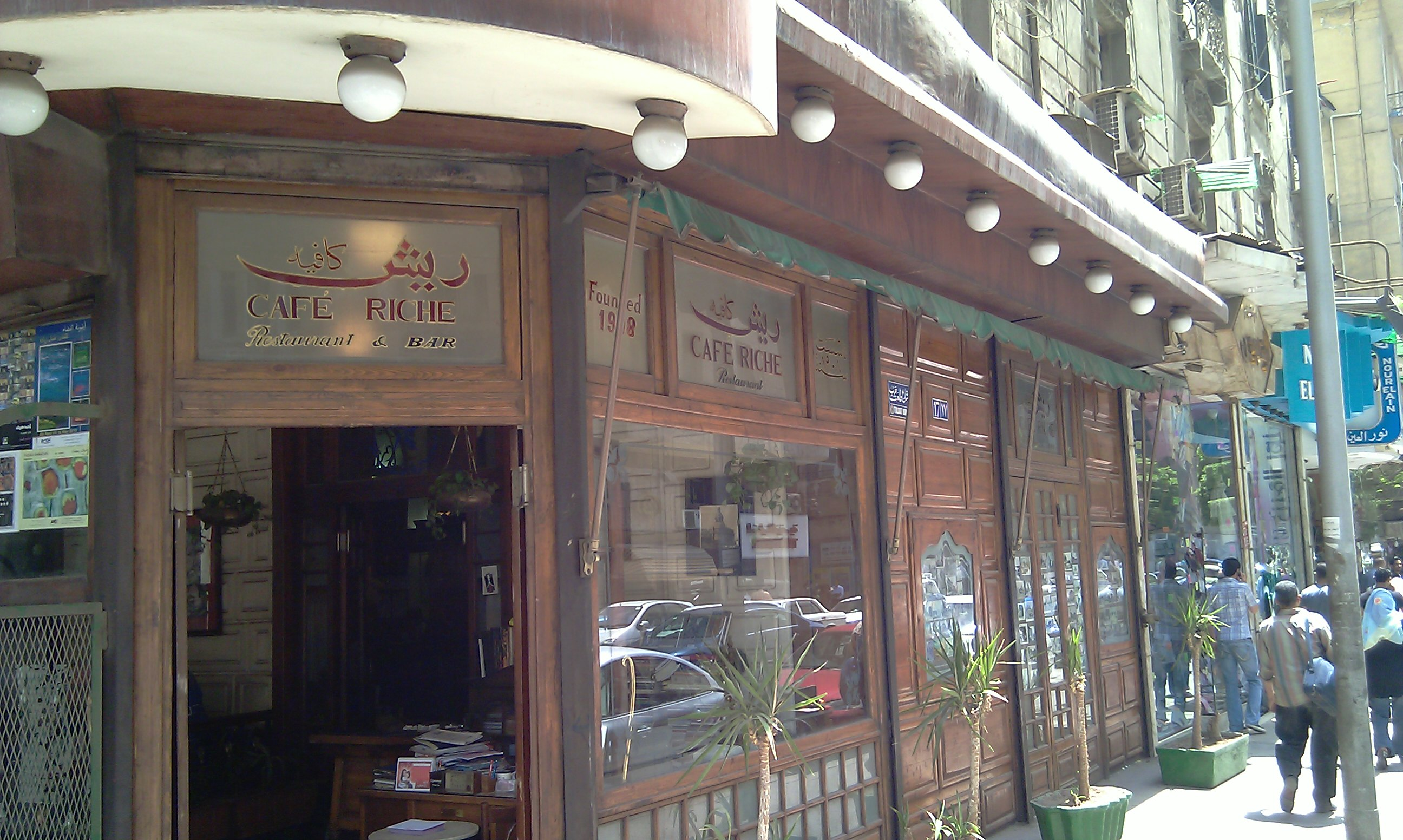 Exterior view of Café Riche on Talaat Harb Street in downtown Cairo